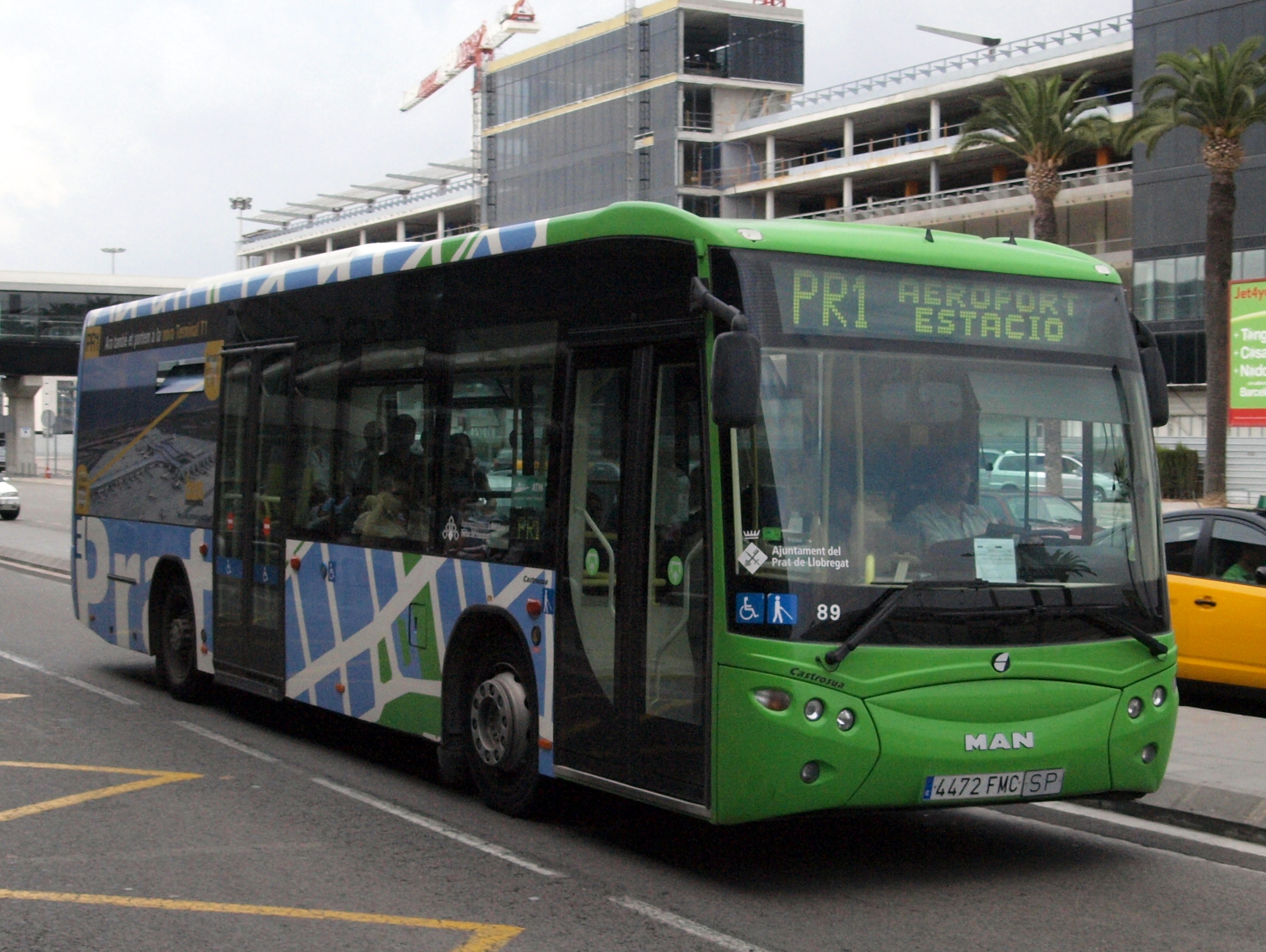 Photographed at Barcelona. MAN Castrosua